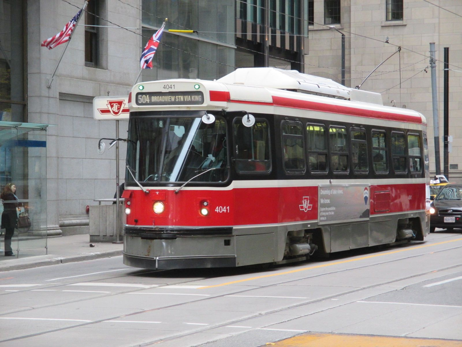 CLRV 4041 eastbound at King & Yonge streets. An air conditioning unit sits on the roof, and this is the only CLRV so equipped.